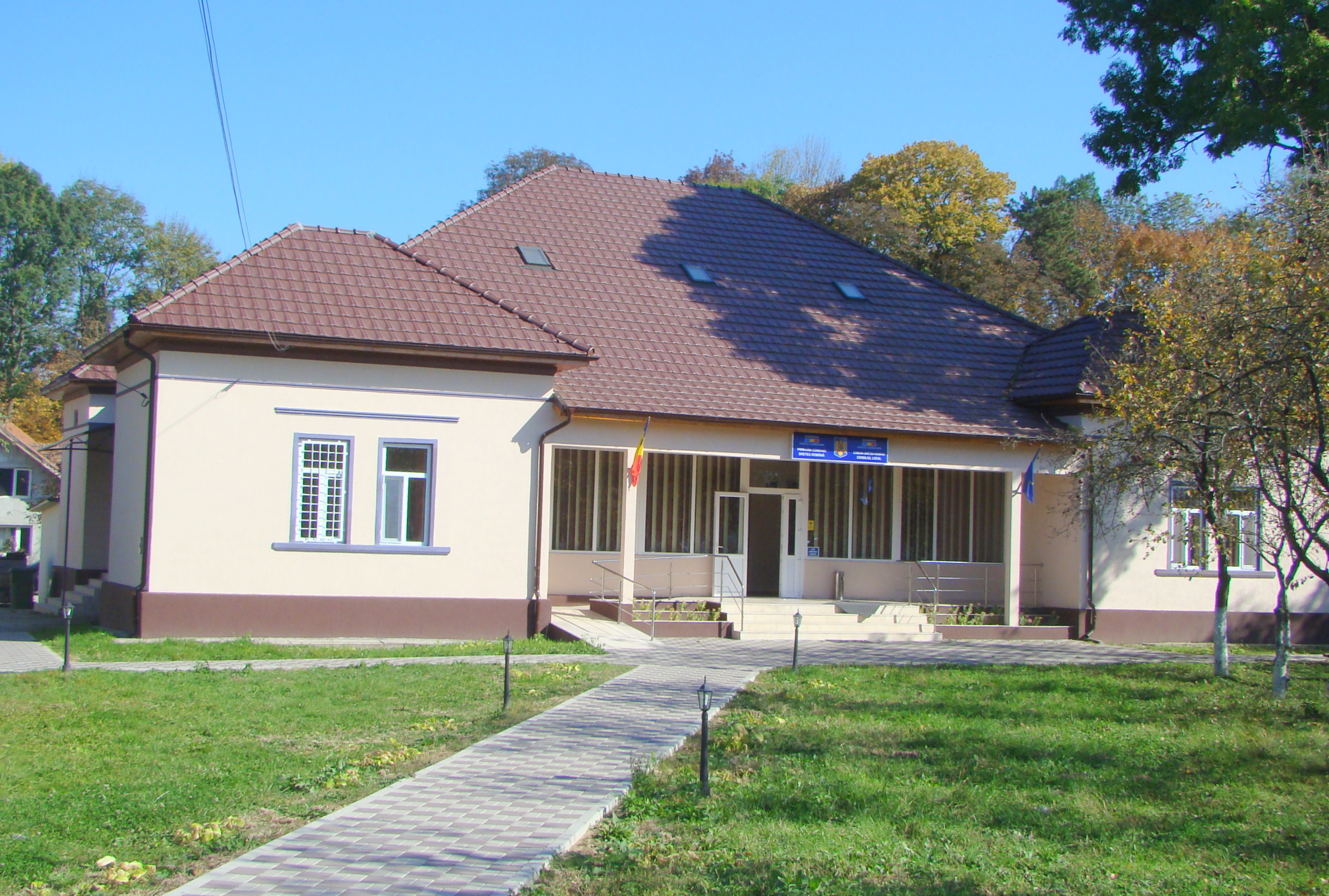 Bretea Română, Hunedoara county, Romania